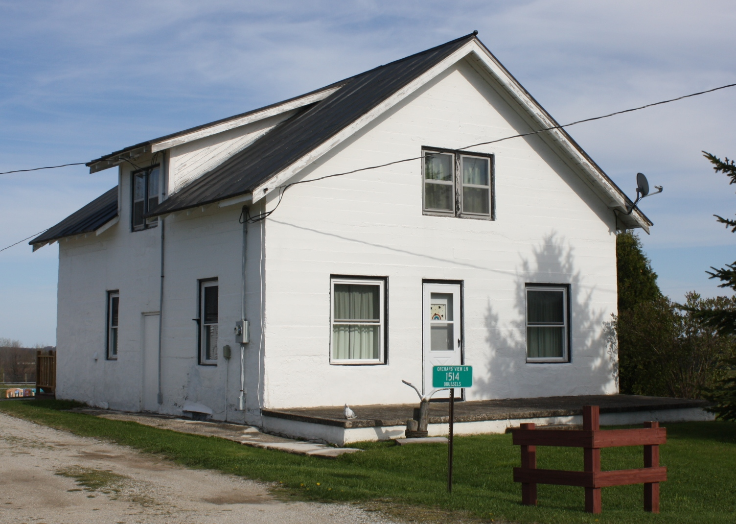 The Louis Vangindertahlen House. It is listed on the National Register of Historic Places.